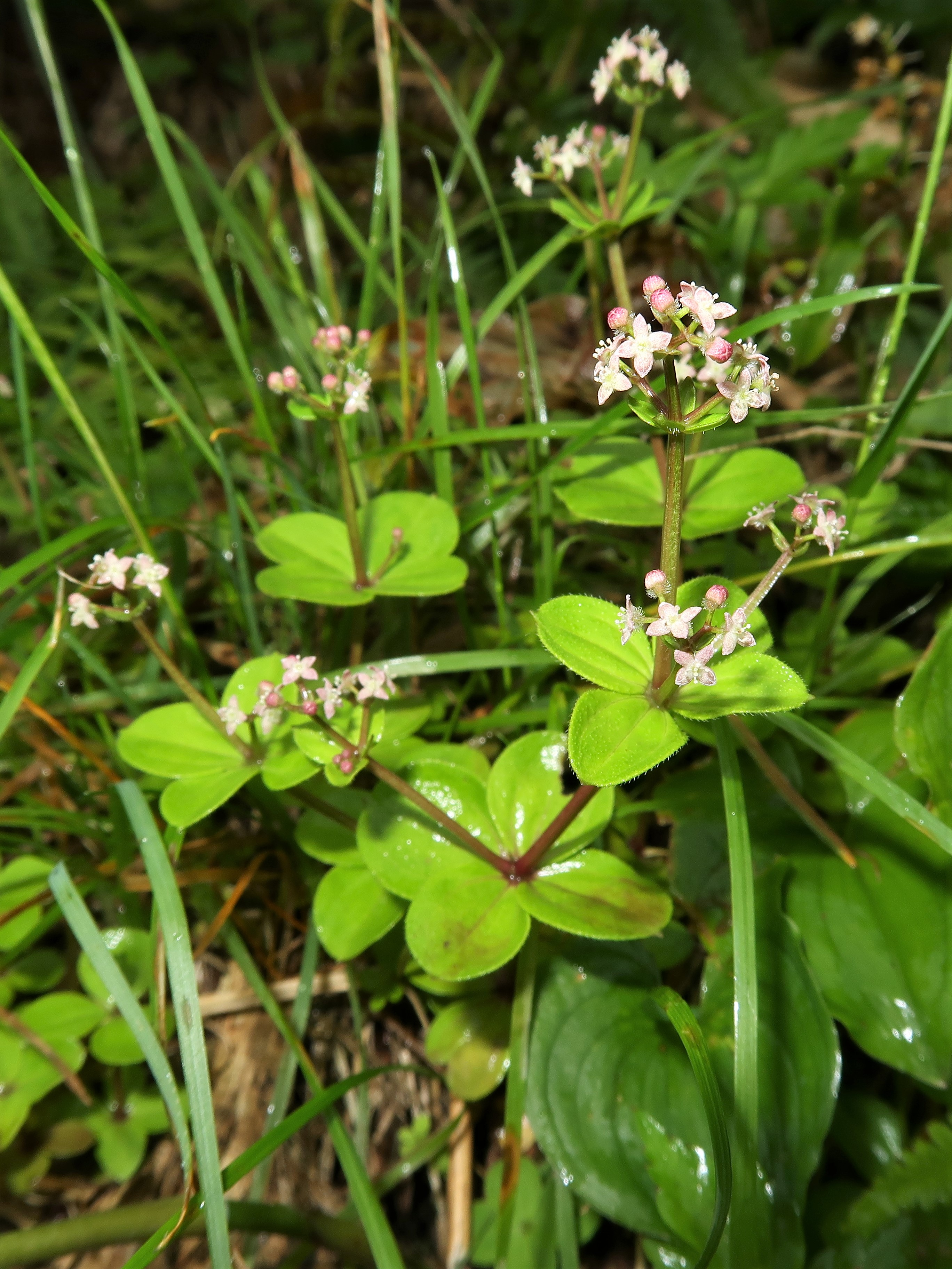 Galium kamtschaticum var. kamtschaticum , Mount Hachimantai, Iwate pref., Japan